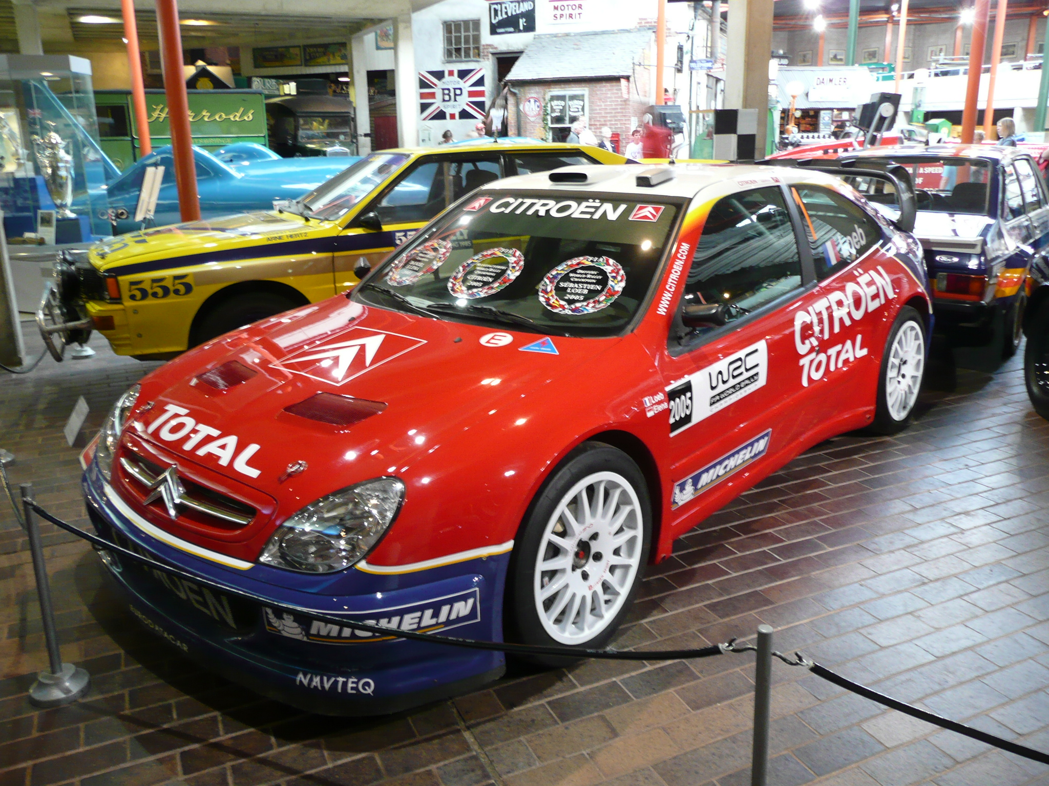 2005 Citroen Xsara WRC, National Motor Museum in Beaulieu.